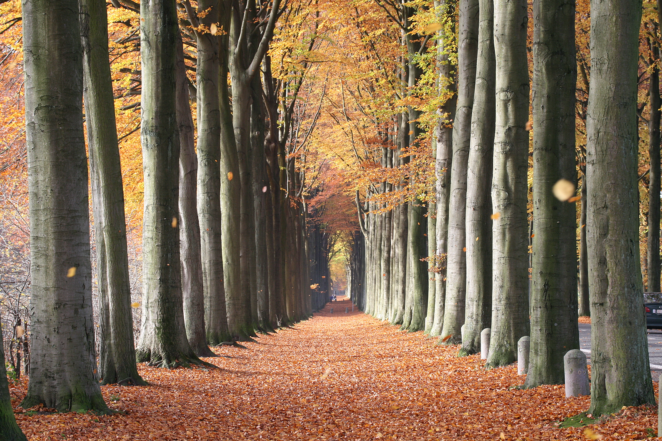 La Hestre (Belgium), the European beech of Mariemont.